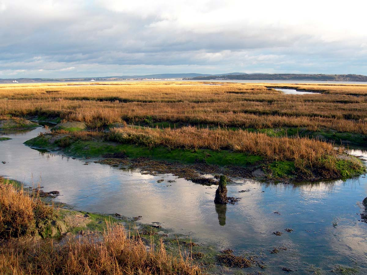 Pennington Marshes, Late Afternoon with patchy Cloud